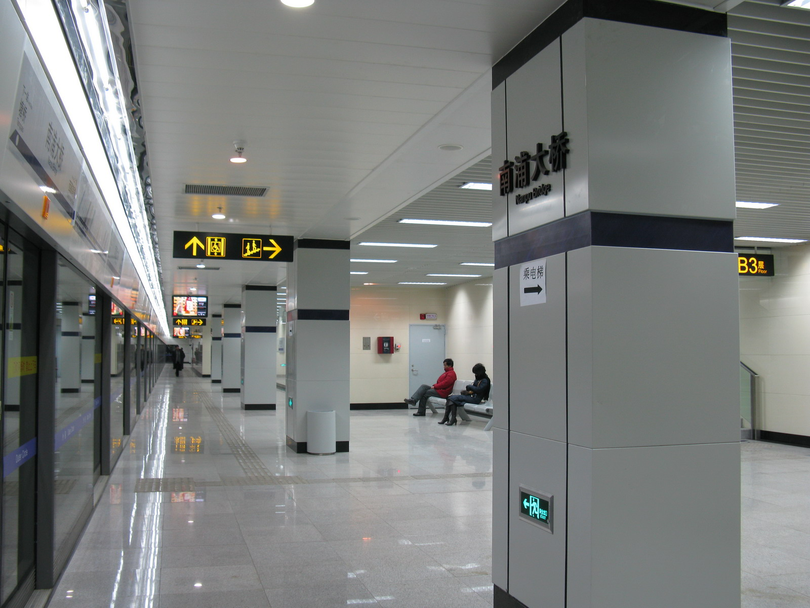 Line 4 Platform of Nanpu Bridge Station